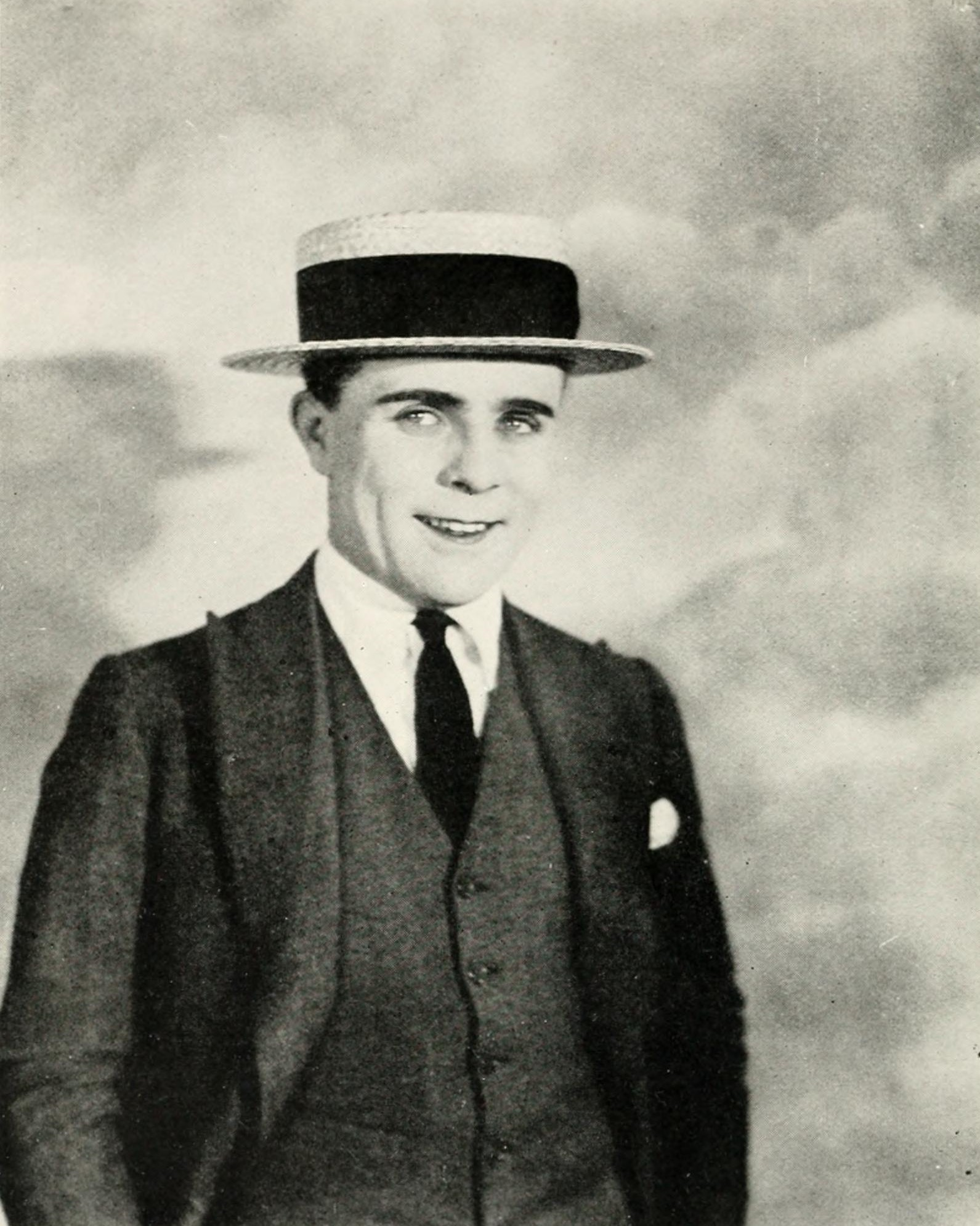 Who's Who on the Screen, 1920